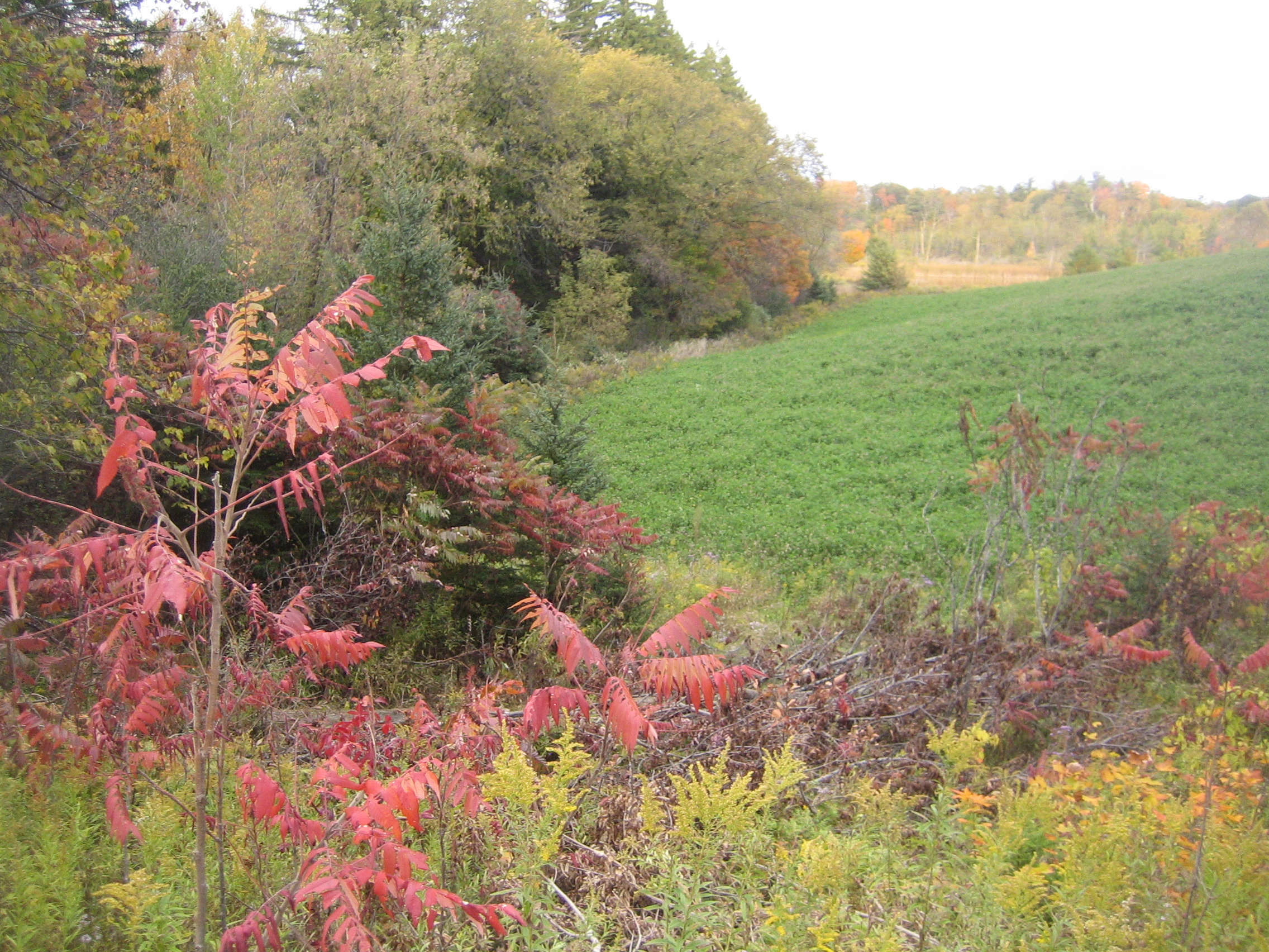 Aurora Site, Wendat (Huron) Ancestral Village Site, Kennedy Road, south of Vandorf Side Road, looking east